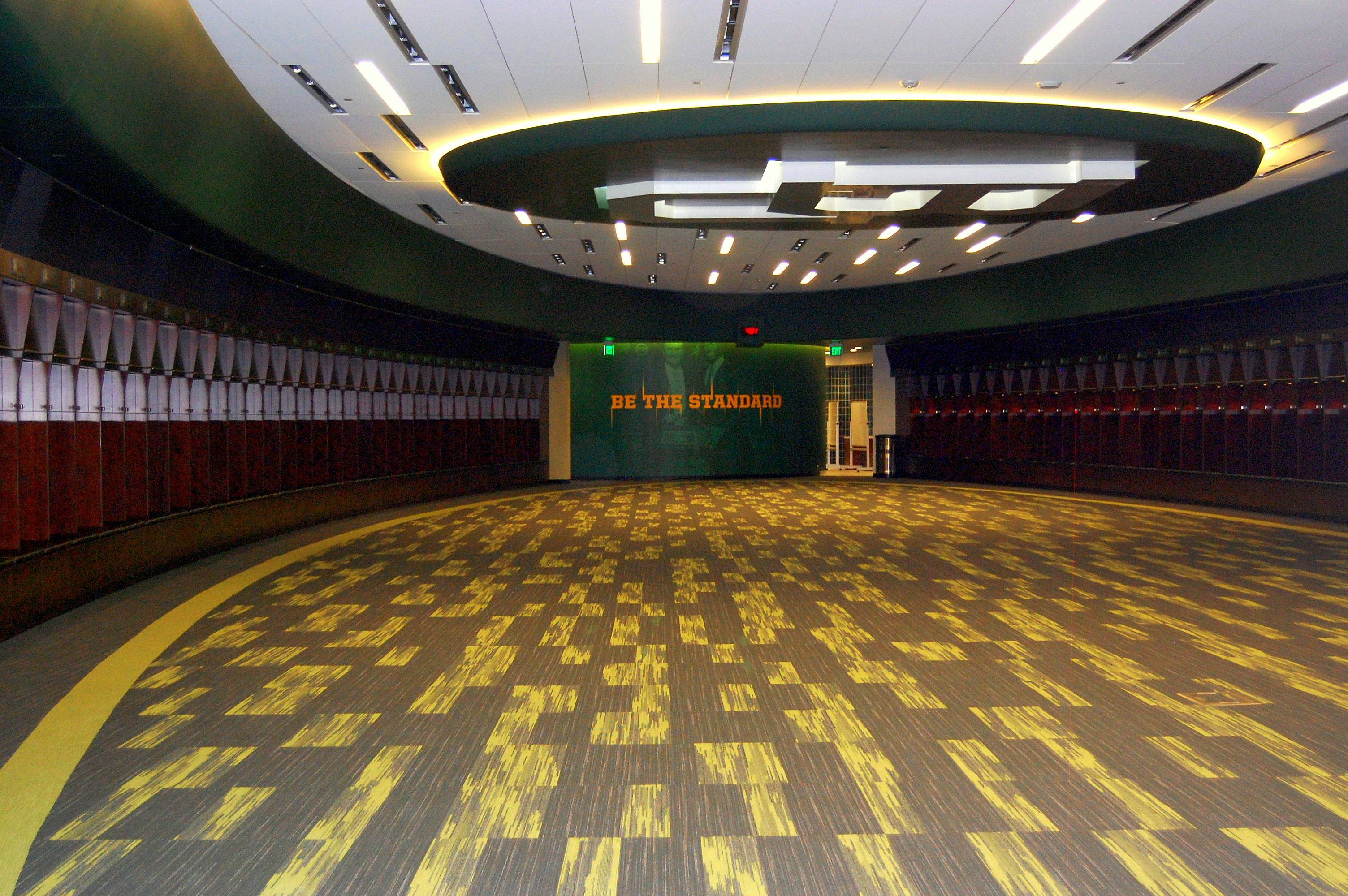 Baylor Bears locker room in McLane Stadium